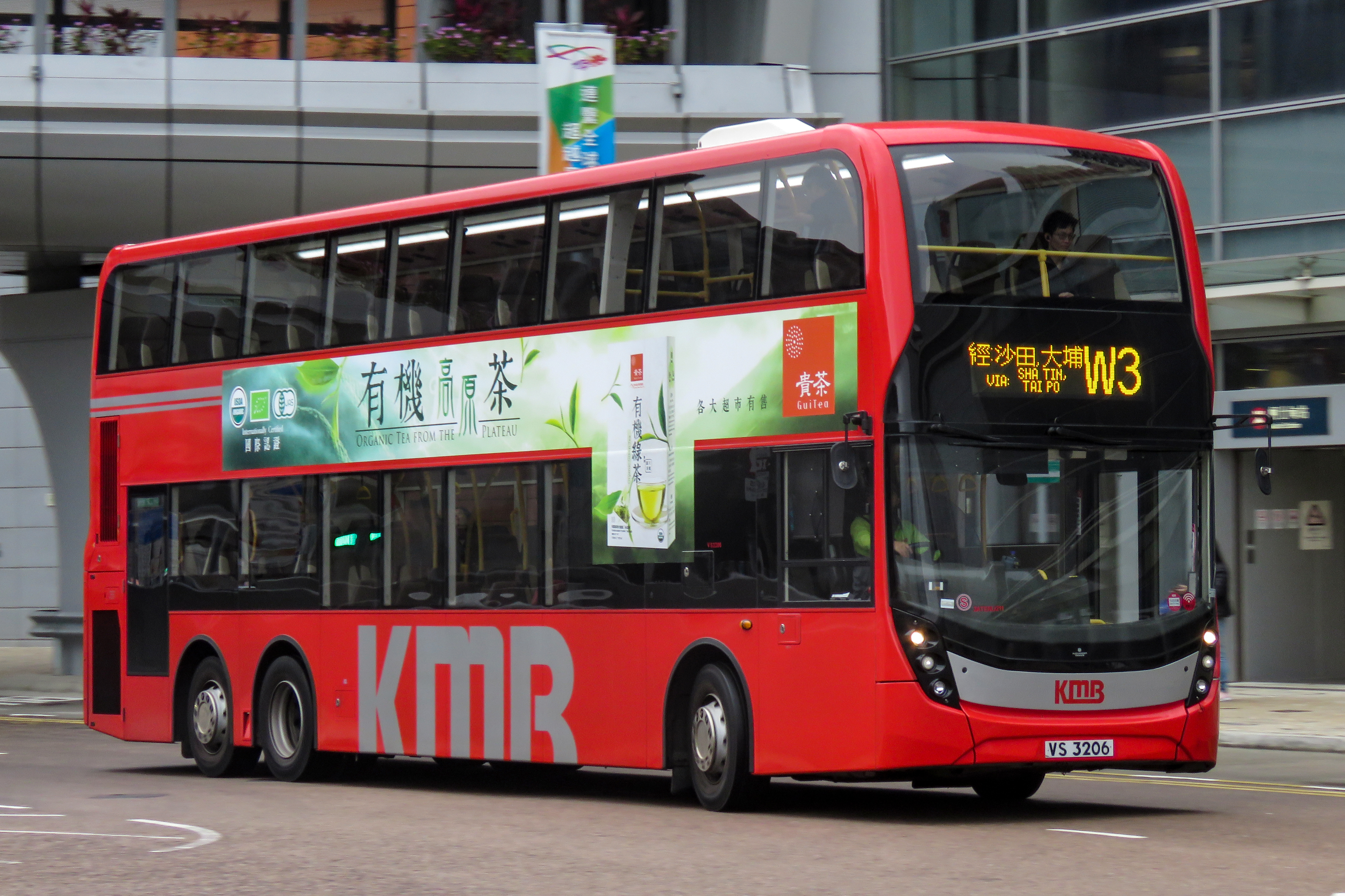 Look at this turn...